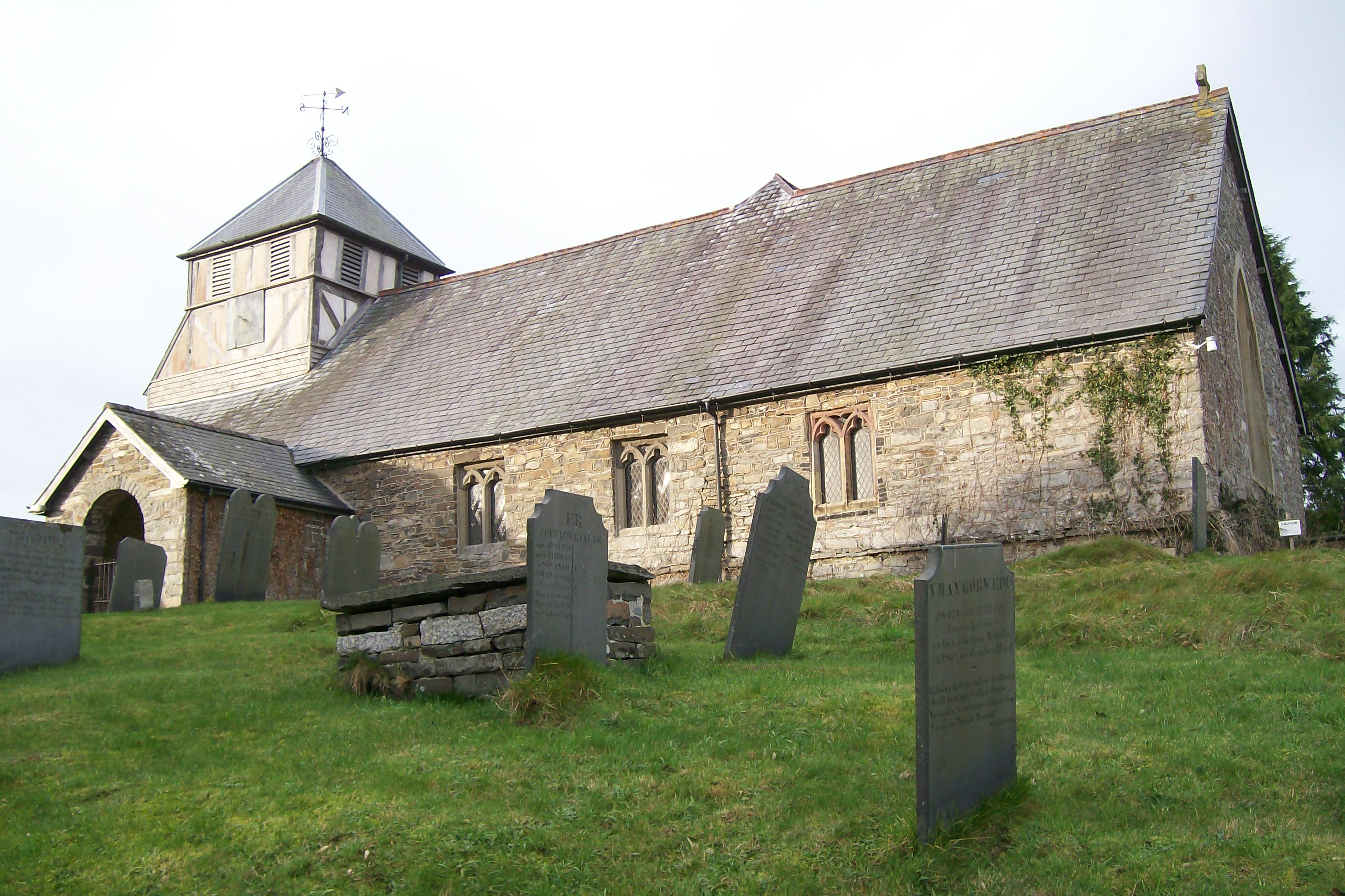 Editor's own photo